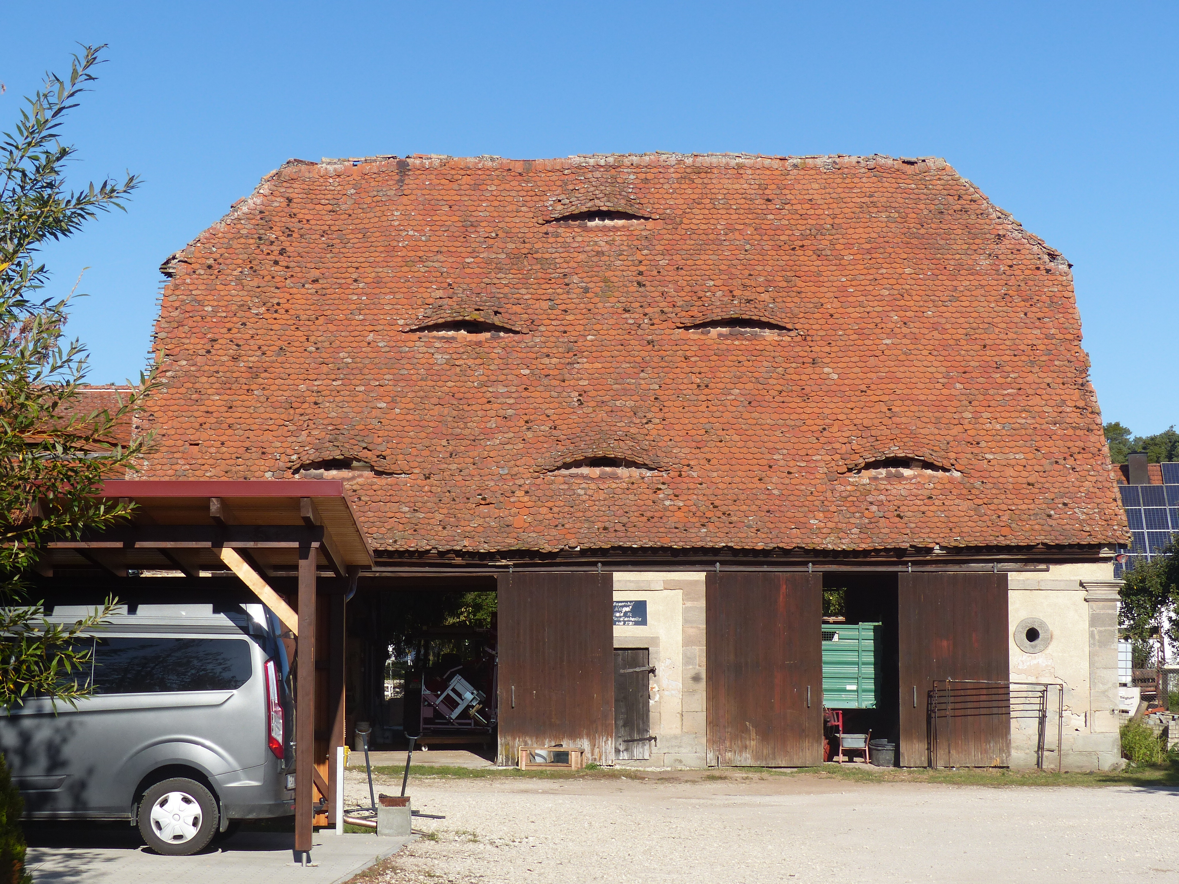 A barn in the village Haid, a district of the municipality of Hallerndorf.